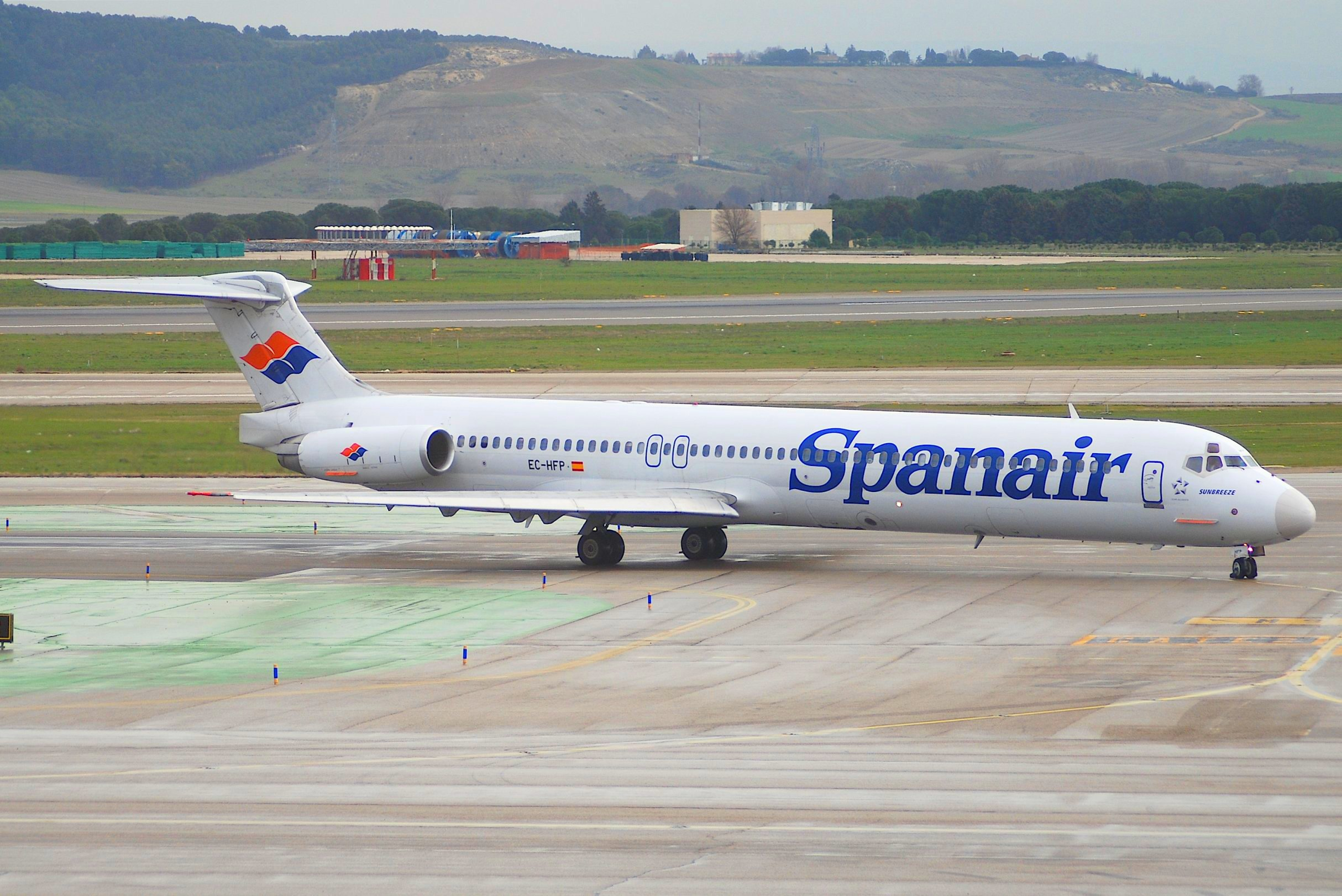 Spanair Flight JK 5022, from Barajas Airport in Madrid to Gran Canaria Airport in Gran Canaria, Spain, crashed just after take off from runway 36L of Barajas Airport at 14:25 CEST (12:25 UTC) on 20 August 2008.The aircraft was a McDonnell Douglas MD-82, registration EC-HFP. It was the first fatal accident for Spanair (part of the SAS Group) in the 20-year history of the company, and the 14th fatal accident and 24th hull loss involving MD-80 series aircraft. It was the world's deadliest aviation accident in 2008 and Spain's deadliest in 25 years.154 people died, six while en route to the hospital, one overnight and one in the hospital three days later.